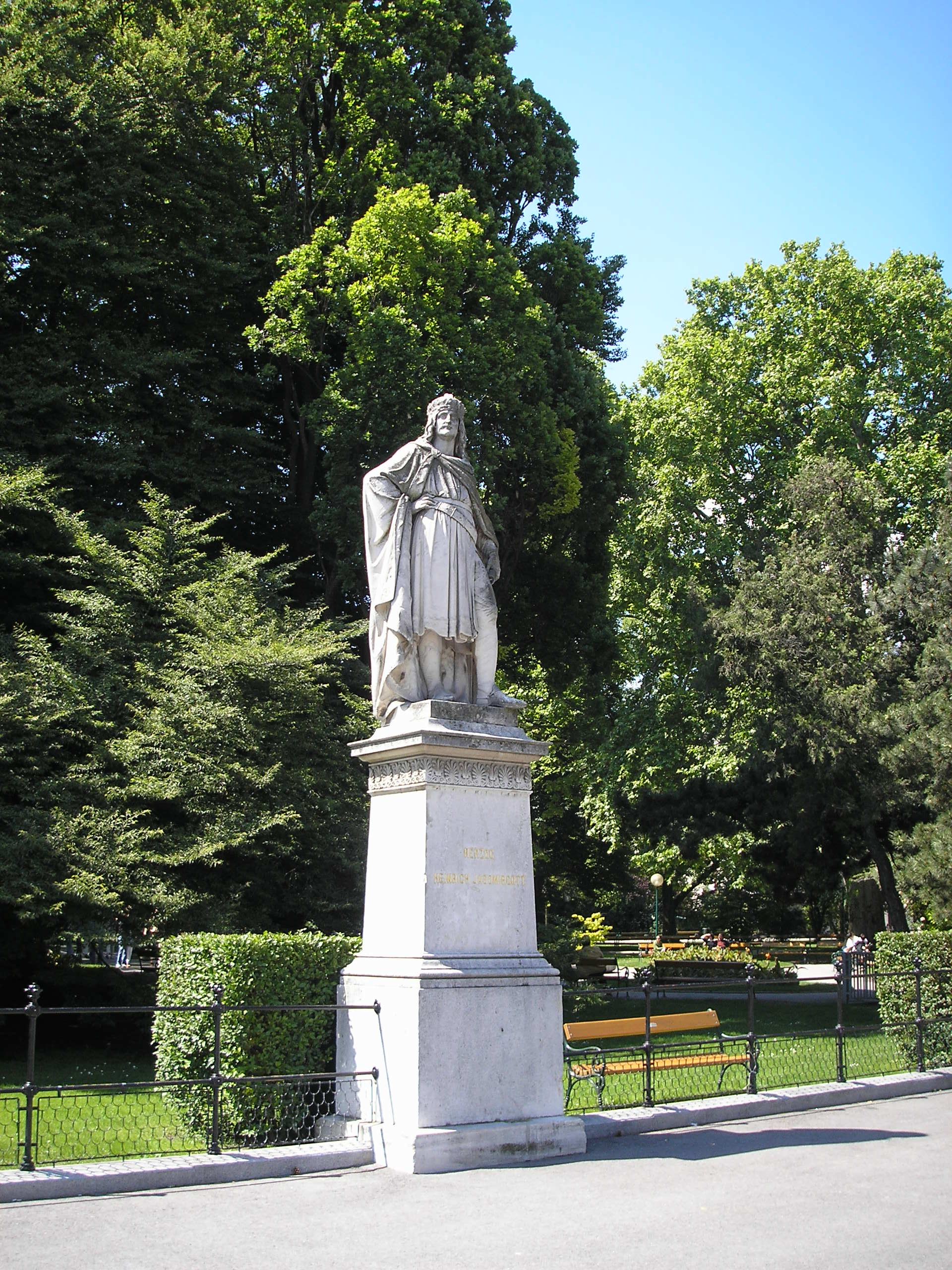 Statue of Duke Heinrich Jasomirgott, better known as Henry II, Duke of Austria, at Rathausplatz in Vienna